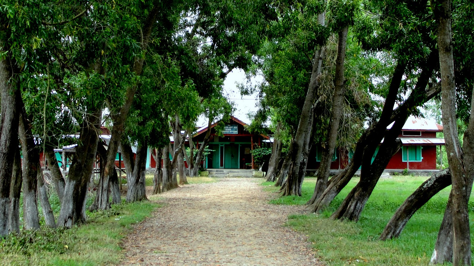 A school set up in the year 1955.